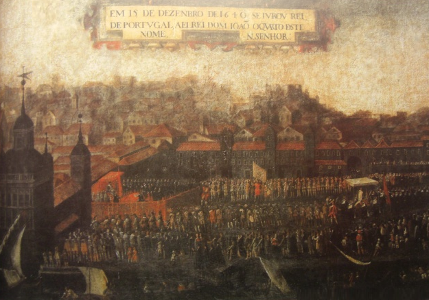 Acclamation of King John IV of Portugal, by unknown author (17th-century, oil on canvas). Currently in the Ducal Palace of Vila Viçosa.